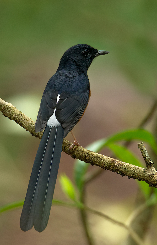 White-rumped Shama Copsychus malabaricus, male, photographed at Bondla Wildlife Sanctuary, Goa, India.